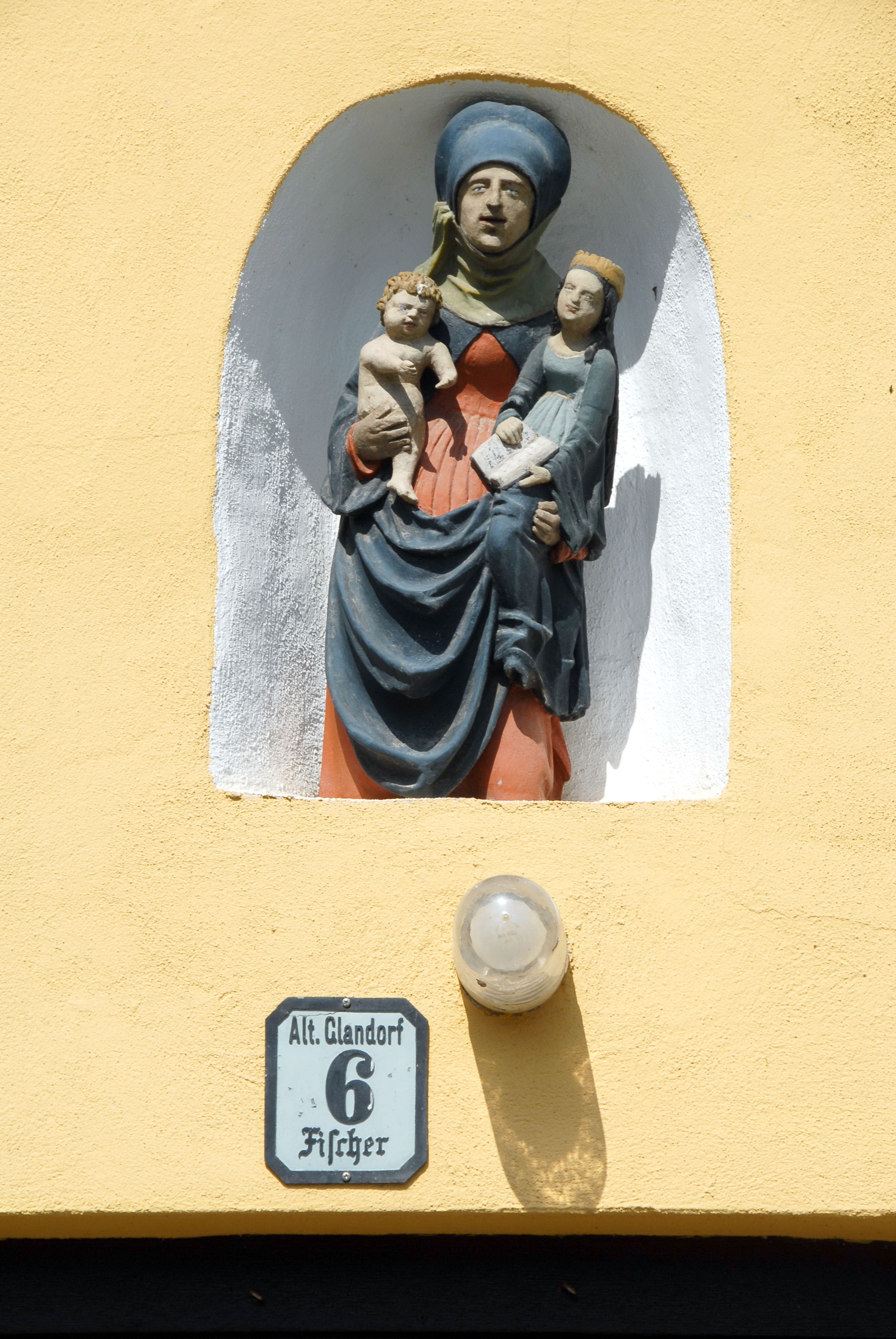 Details above the portal of an old farmhouse at Unterglandorf in the community of Saint Veit by the Glan, Carinthia, Austria